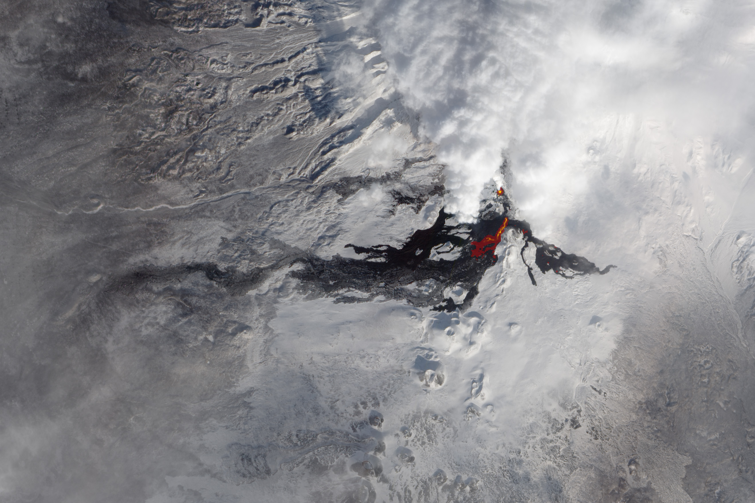 Nearly three months after Tolbachik began erupting, lava continues to flow from the Kamchatkan volcano. Over time, the lava flows change location and shift across the landscape. In this image, infrared data is superimposed on a natural-color image to highlight active flows. The image was collected by the Advanced Land Imager (ALI) aboard the Earth Observing-1 (EO-1) satellite on February 14, 2013. The Advanced Land Imager detected the infrared light emitted from recent and ongoing lava flows. Near infrared light detected by ALI is colored yellow, and shows the erupting vent and an active lava flow, open to the air. Areas glowing in shortwave infrared light, including the fringes of the active flow, are tinted red. These surfaces are hotter than the frigid winter air of Kamchatka, but cooler than the channelized flowing lava. To the east, scattered red pixels reveal residual heat on a flow formed in early February.